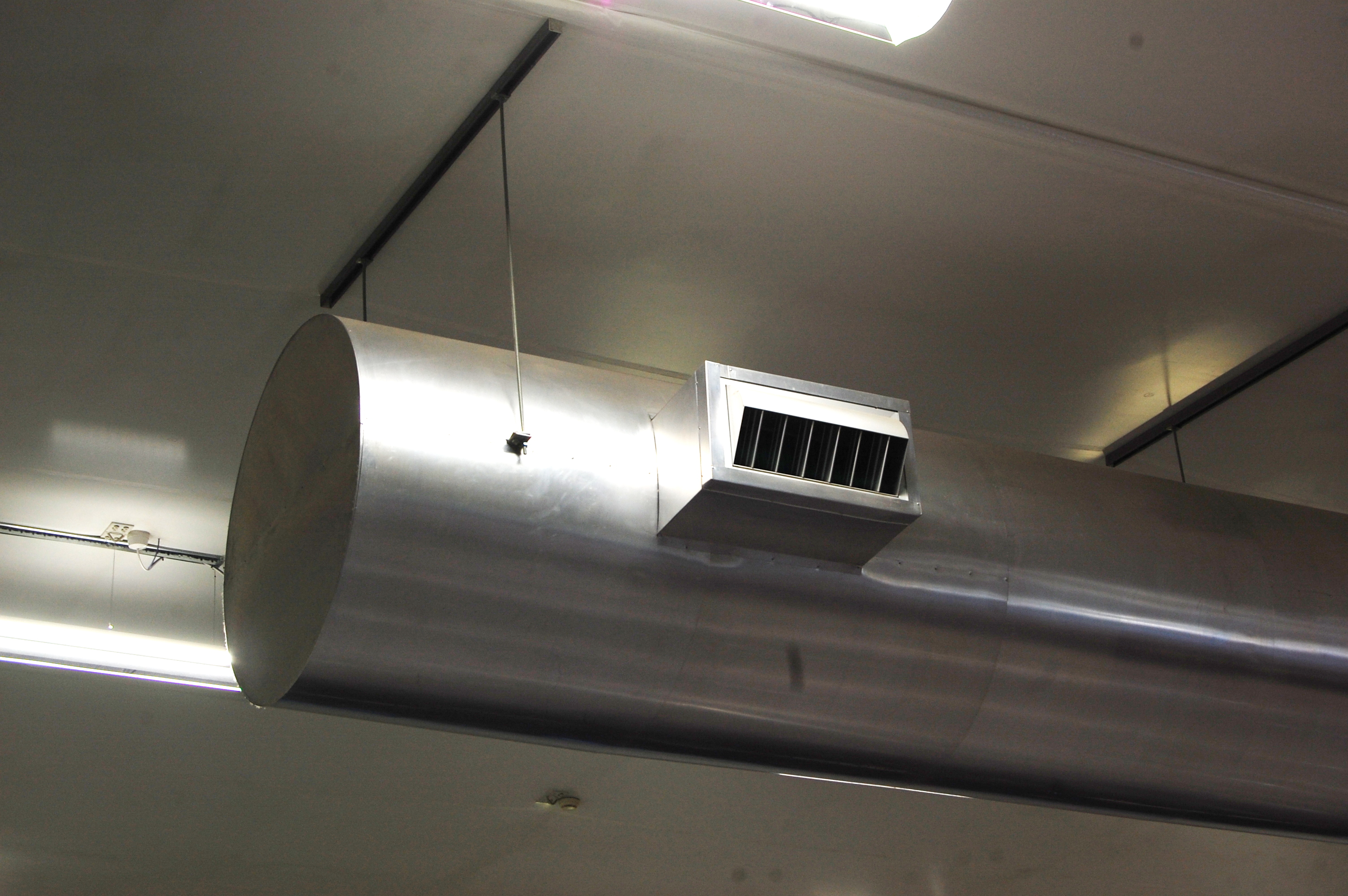 Ventilation duct in the departure hall at East Midlands Airport, England.